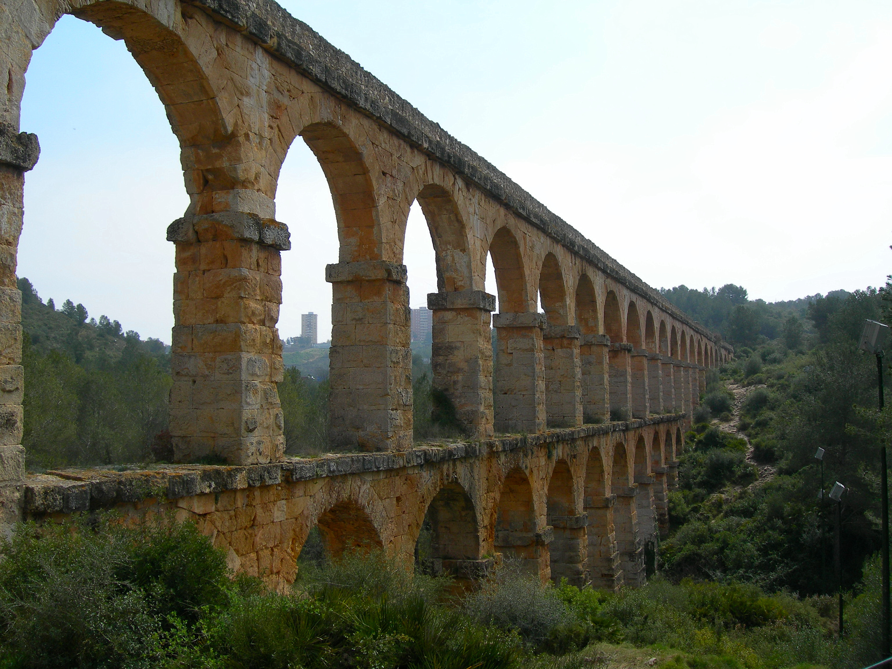 Photo of Tarragona aquaduct built by the Romans.